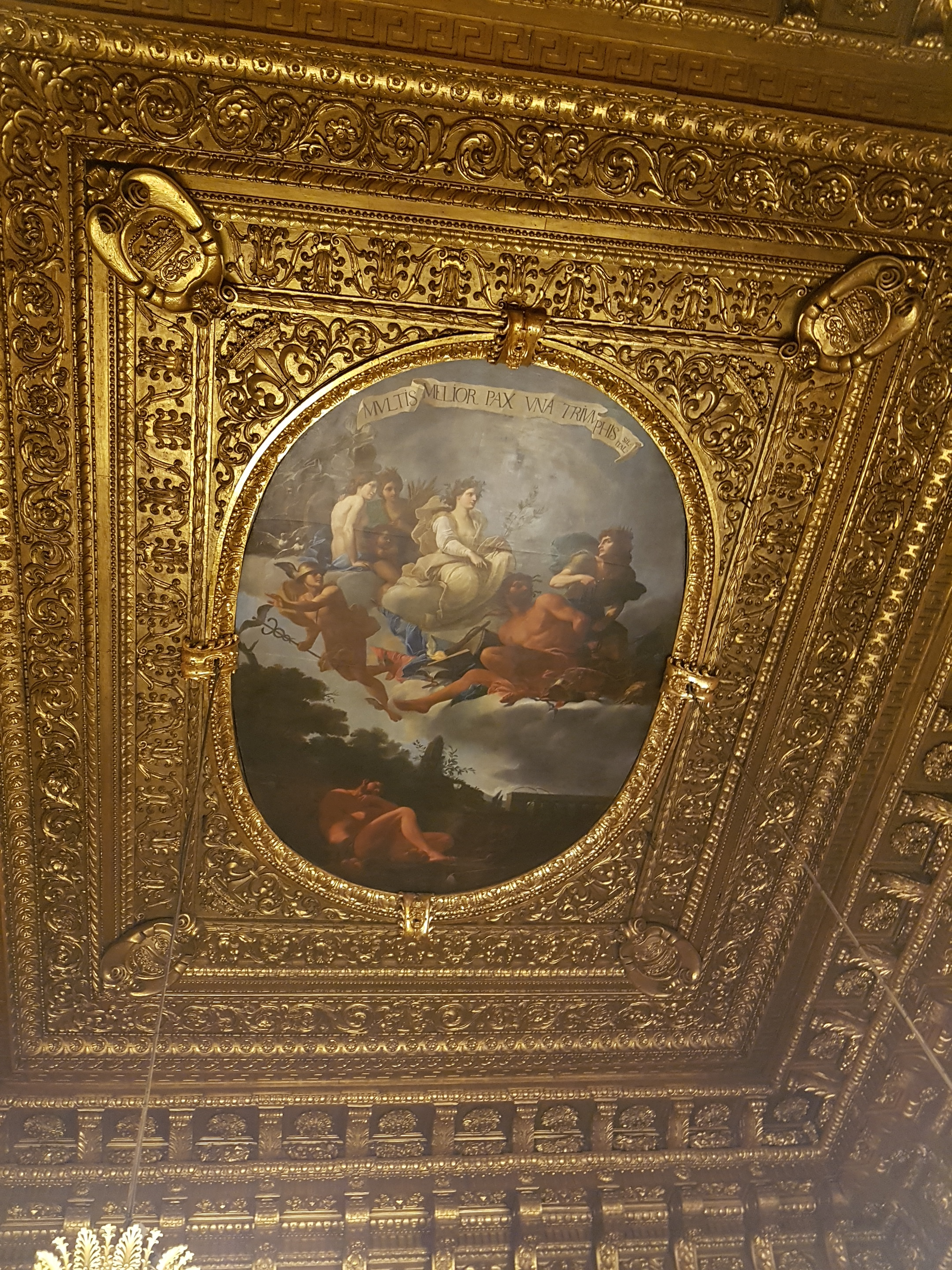 First Floor: Ceiling of the Throne Hall, Royal Palace of Turin, Northern Italy